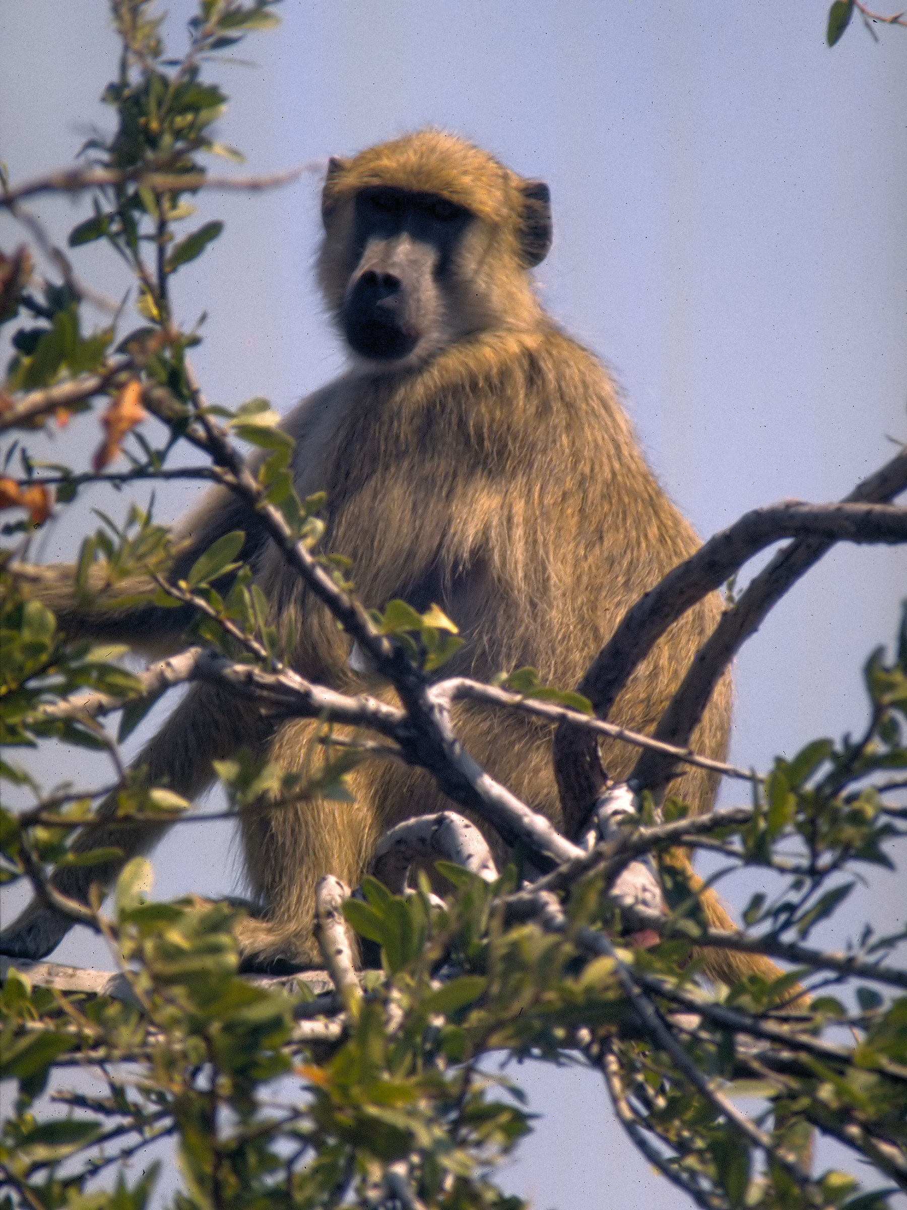 Yellow baboon at Cape Maclear - Malawi. Kodak photo CD from slide